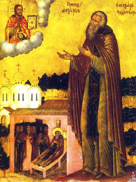 Saint Eleazar of Anzer.